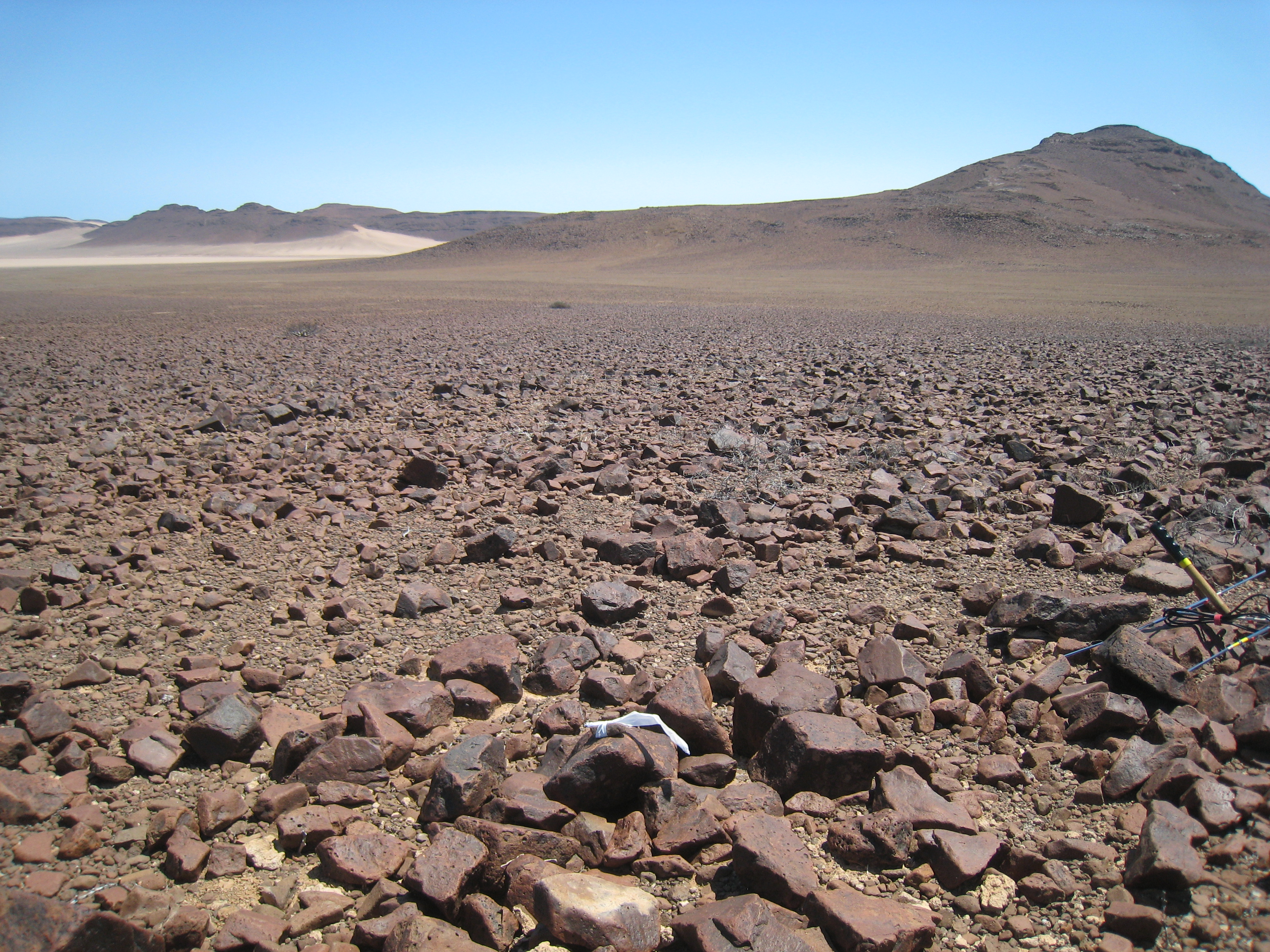 Macroscelides micus study site in eastern Goboboseb Mountains, northwestern Namibia. View from the northern end of #4947M home range looking south across home range area of #4020F. White flagging on top of rock in foreground is a day shelter of #4947M. Boscia bush in far middle of image was used as a shelter at night. The alluvial plains between the Boscia bush and the sand dunes in far distance, beyond rust-colored rocky Macroscelides micus habitat in foreground, were rarely used by M. micus, but are likely habitat of M. flavicaudatus. Wooden handle of radio-tracking antenna on right margin of image is 30 cm long.